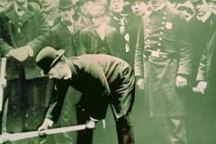 Chief Engineer William Barclay Parsons and the completion of the New York City Subway in 1904.